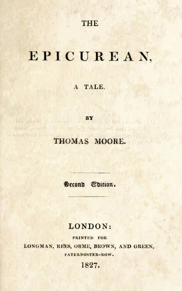 The Epicurean 1827 (2nd edition) title page